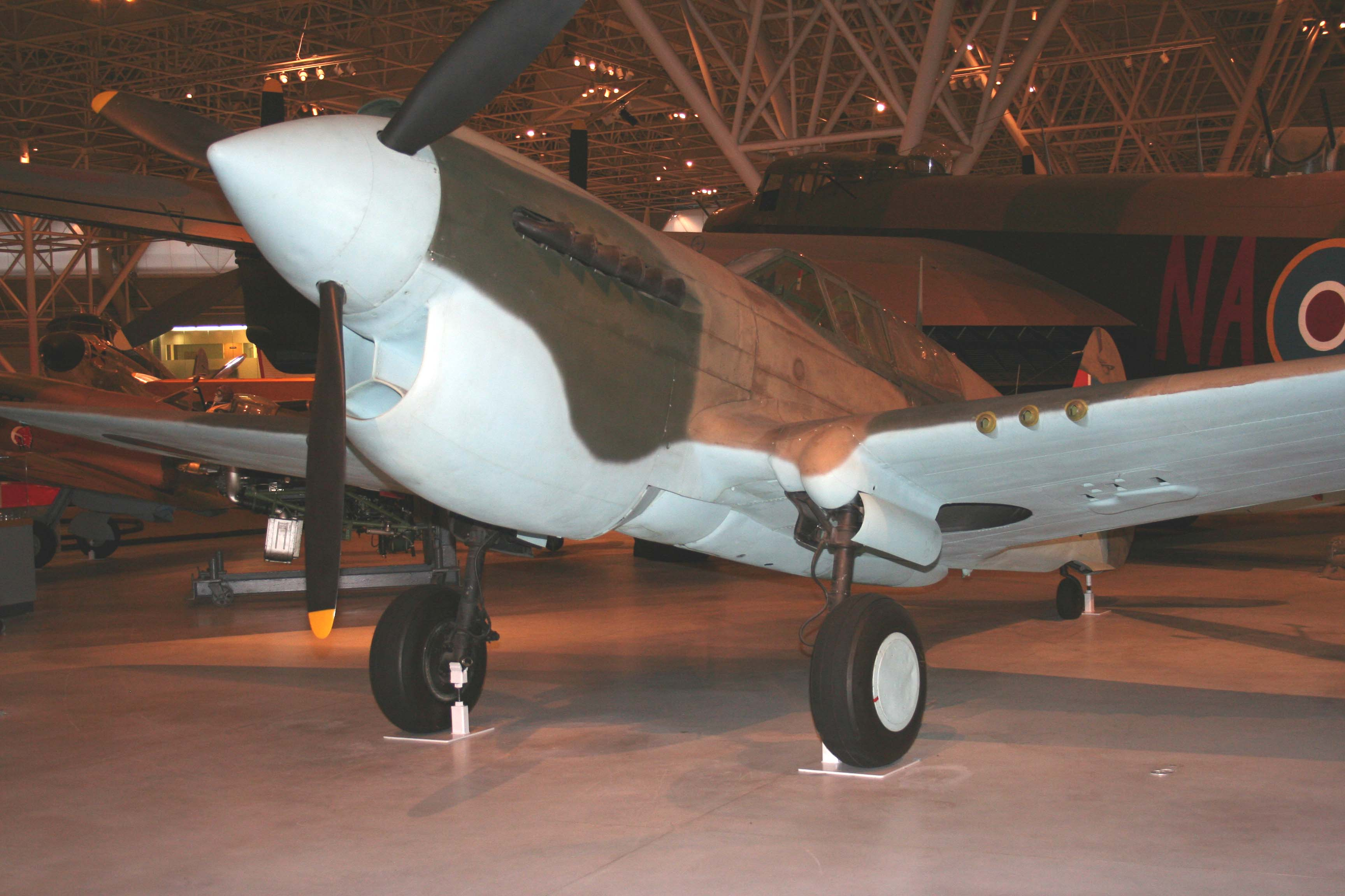 Curtiss Kittyhawk Mk 1 at the Canada Aviation Museum, Ottawa, Ontario, Canada.